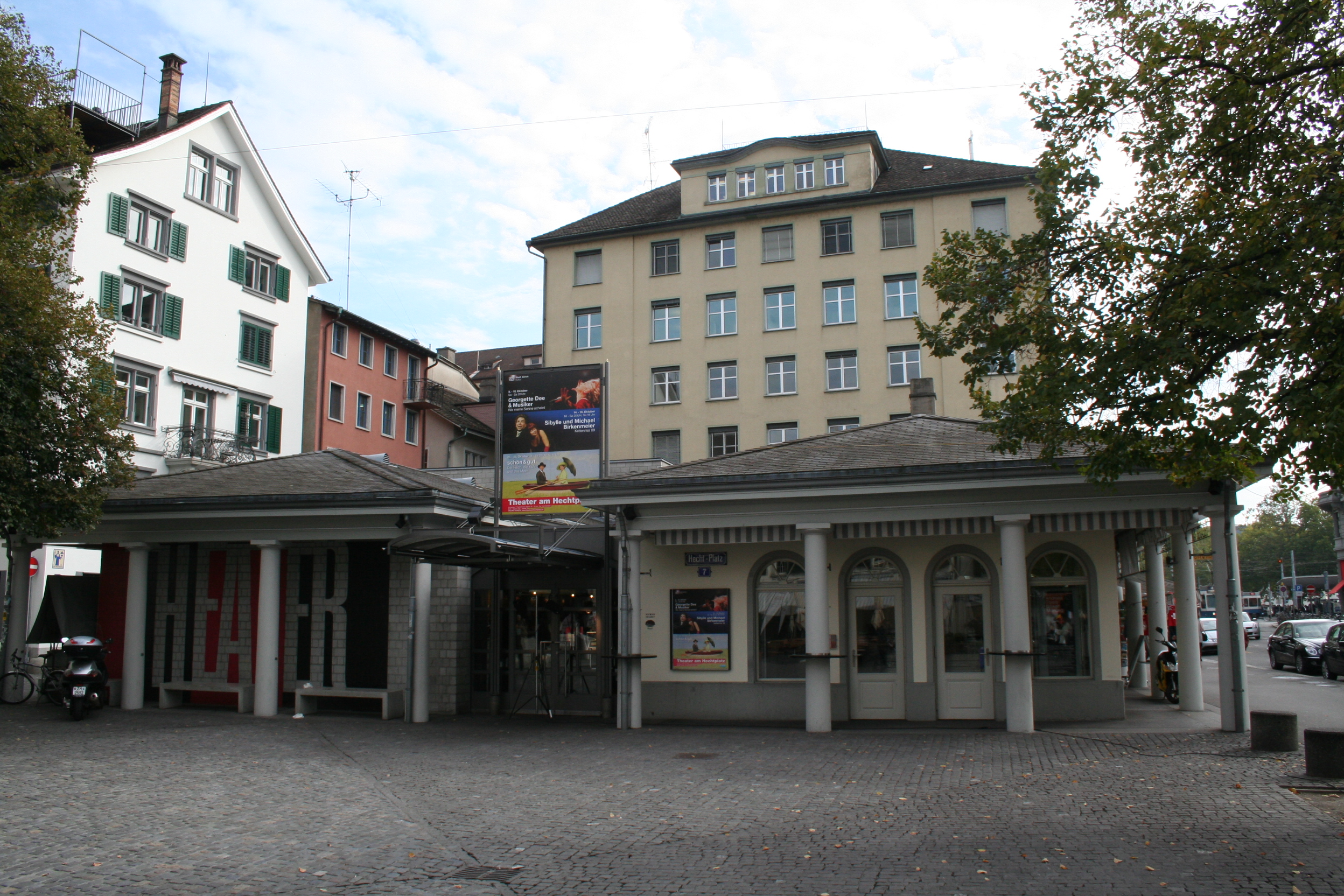 Theater am Hechtplatz